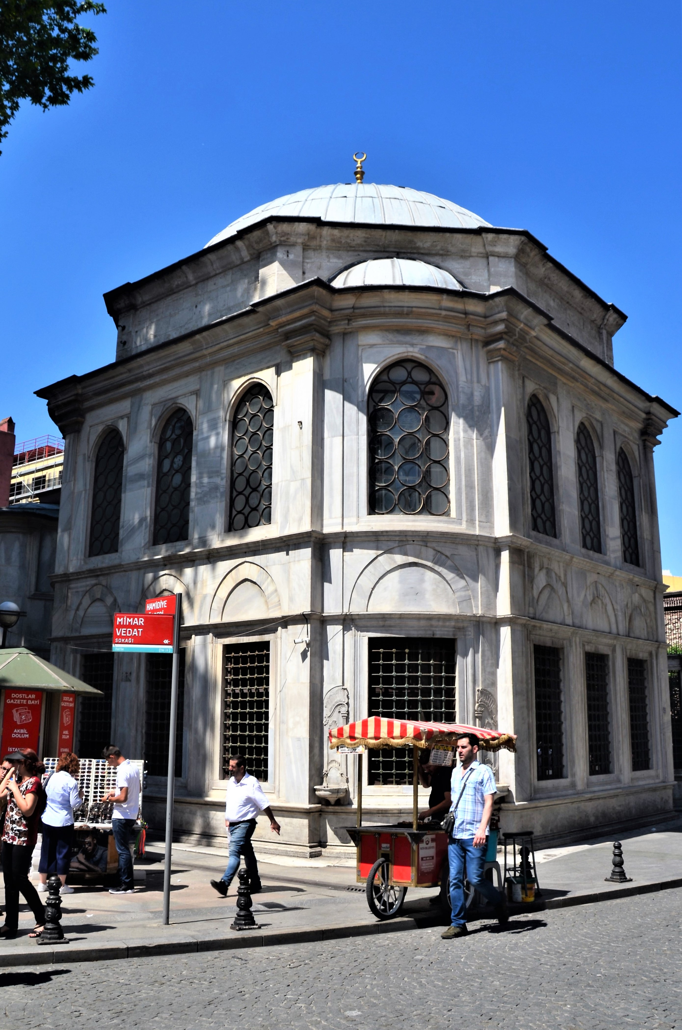 Mausoleum of Ottoman Sultan Abdul Hamid I (reigned 1773 –1789 ) in Eminönü, Fatih district of Istanbul, Turkey